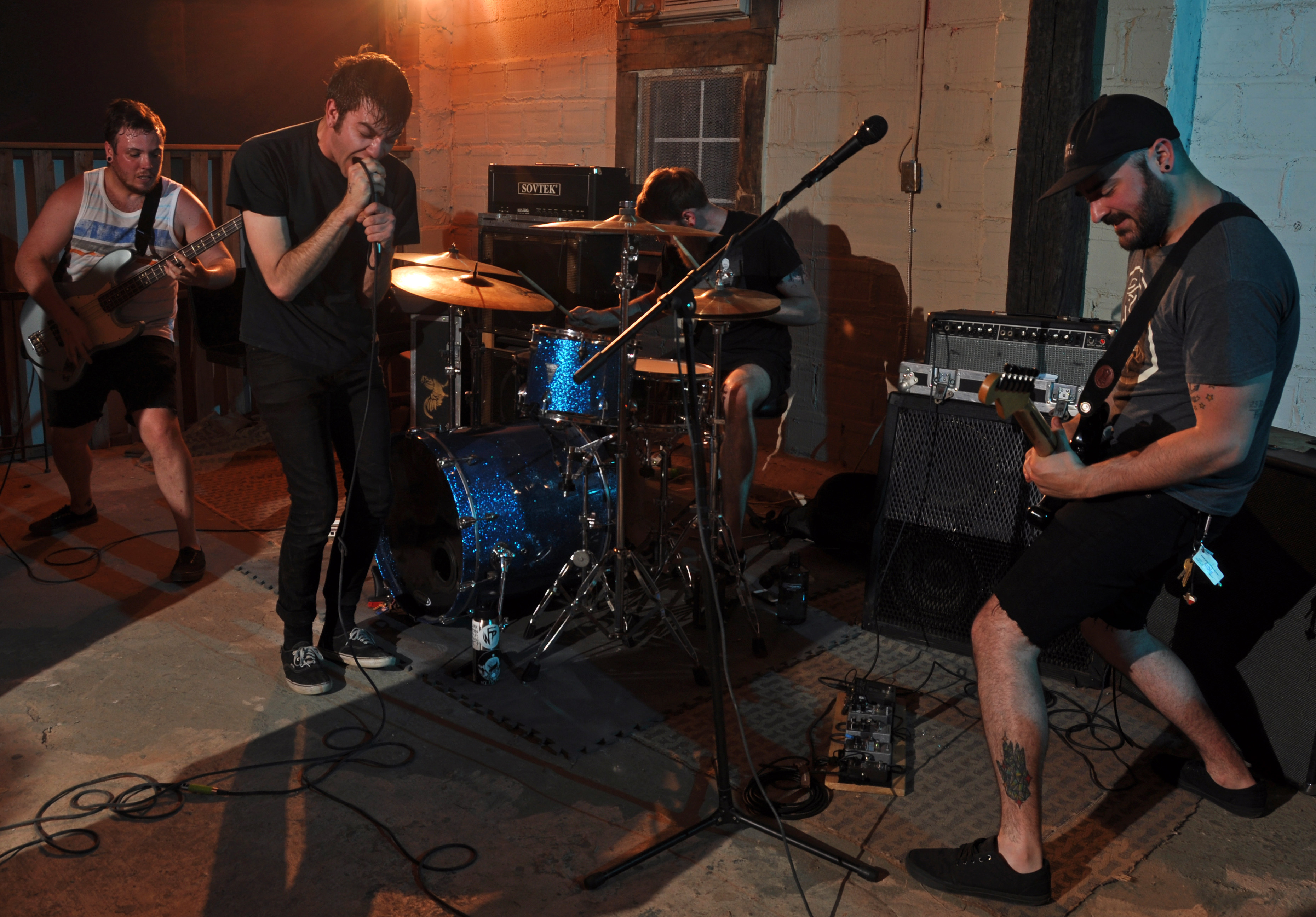 5/28/14 - Rescuer / Direct Effect / Frameworks / Lyra / Shitty Kids at Area Fifteen in Charlotte, NC